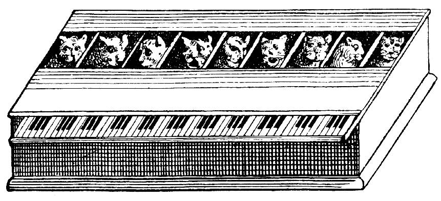 Cat organ. The instrument was first described by Athanasius Kircher in his work Musurgia Universalis, though the lack of an image may have left doubt in the minds of some writers. (The New York Times, for example, has carried an article claiming he described the instrument, and another stating he did not describe it in Musurgia Universalis.). His description appears in Book 6, Part 4, Chapter 1, under the heading "Corollaria," (emphasis added): The citation is noted by Kircher's student Gaspar Schott in Magia Naturalis naturae et artis, Part 2, Book 6, Pragmatia 2, titled "Felium Musicam exhibere." Schott, Gaspar (1657) Magia universals naturae et artis : Text and Image at Linda Hall Library.